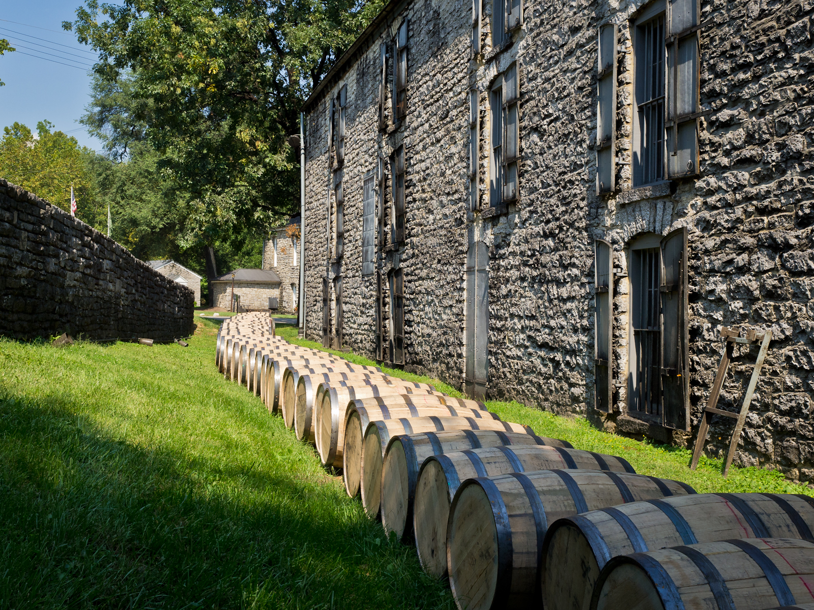 Recently filled barrels of Woodford Reserve bourbon outside of the rickhouse, where they will be stacked and stored during the aging process.Photo taken with an Olympus E-5 at the Woodford Reserve distillery, Versailles, Kentucky, USA.Cropping and post-processing performed with Adobe Lightroom.